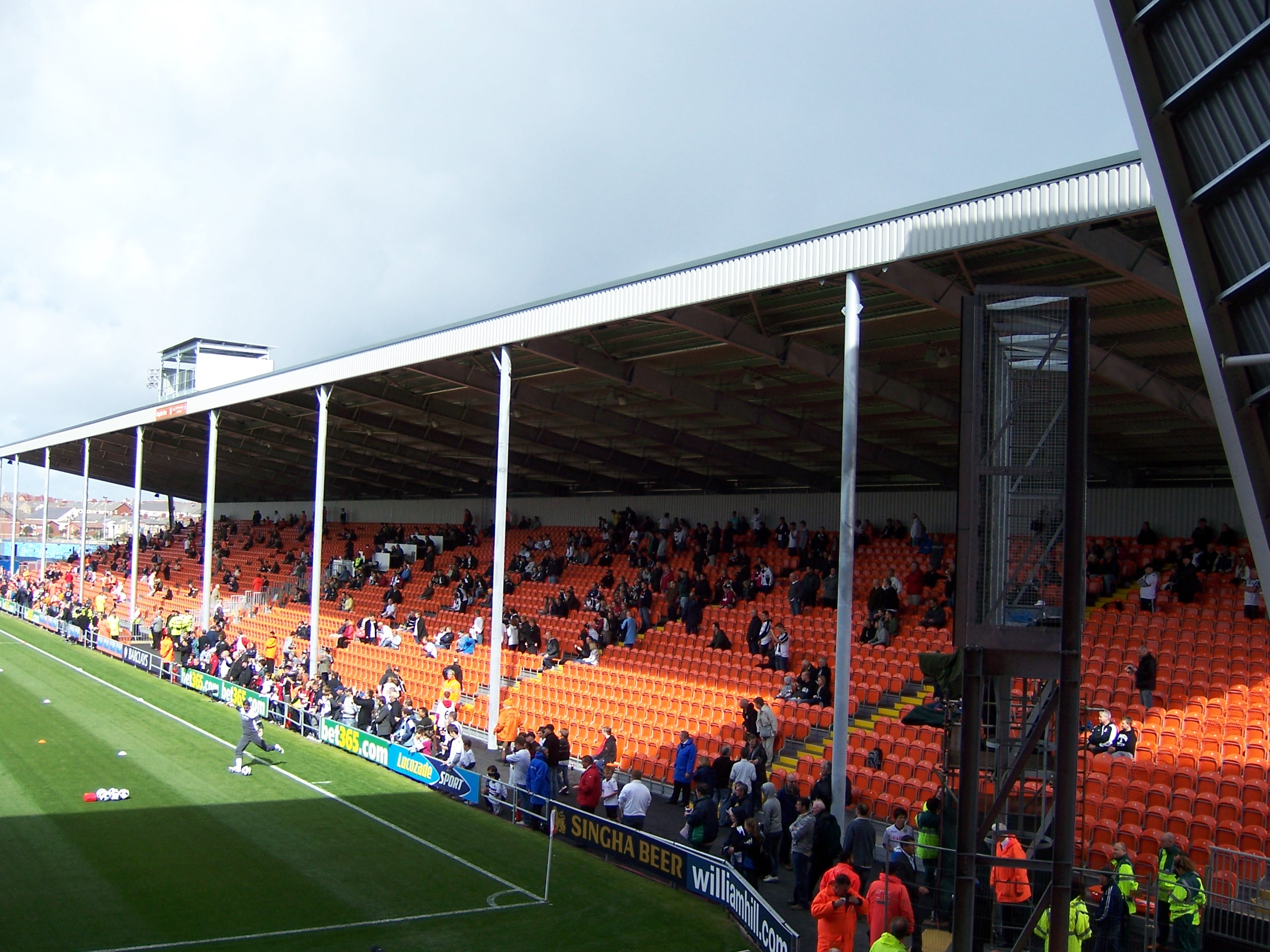 East Stand at Bloomfield Road, Blackpool - 2010/11 Blackpool's promotion to the Premier League for the 2010/11 season has meant erecting a more permanent East Stand than that used in previous years ... although this stand is considered 'temporary' it is far superior to the old 'Gene Kelly' stand.